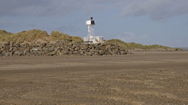 Crow Point Low Spring tides expose large sand banks known as The Neck. The light, marking the junction of the Taw, Torridge and the seaway, has seen less commercial traffic since the demise of Yelland Power Station across the river. The light is operated by Trinity House and was converted to solar power in 1987.